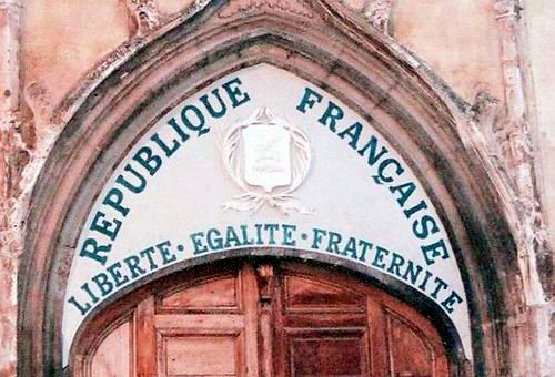 Tympanum of a church (Aups, Var department). The Republican motto "Liberté, Egalité, Fraternité" was put on in 1905 (following the French law on the separation of the state and the church) to show that this church was owned by the state. Such inscriptions are very rare, and this one was restored in 1989 during the bicentennial of the French Revolution.